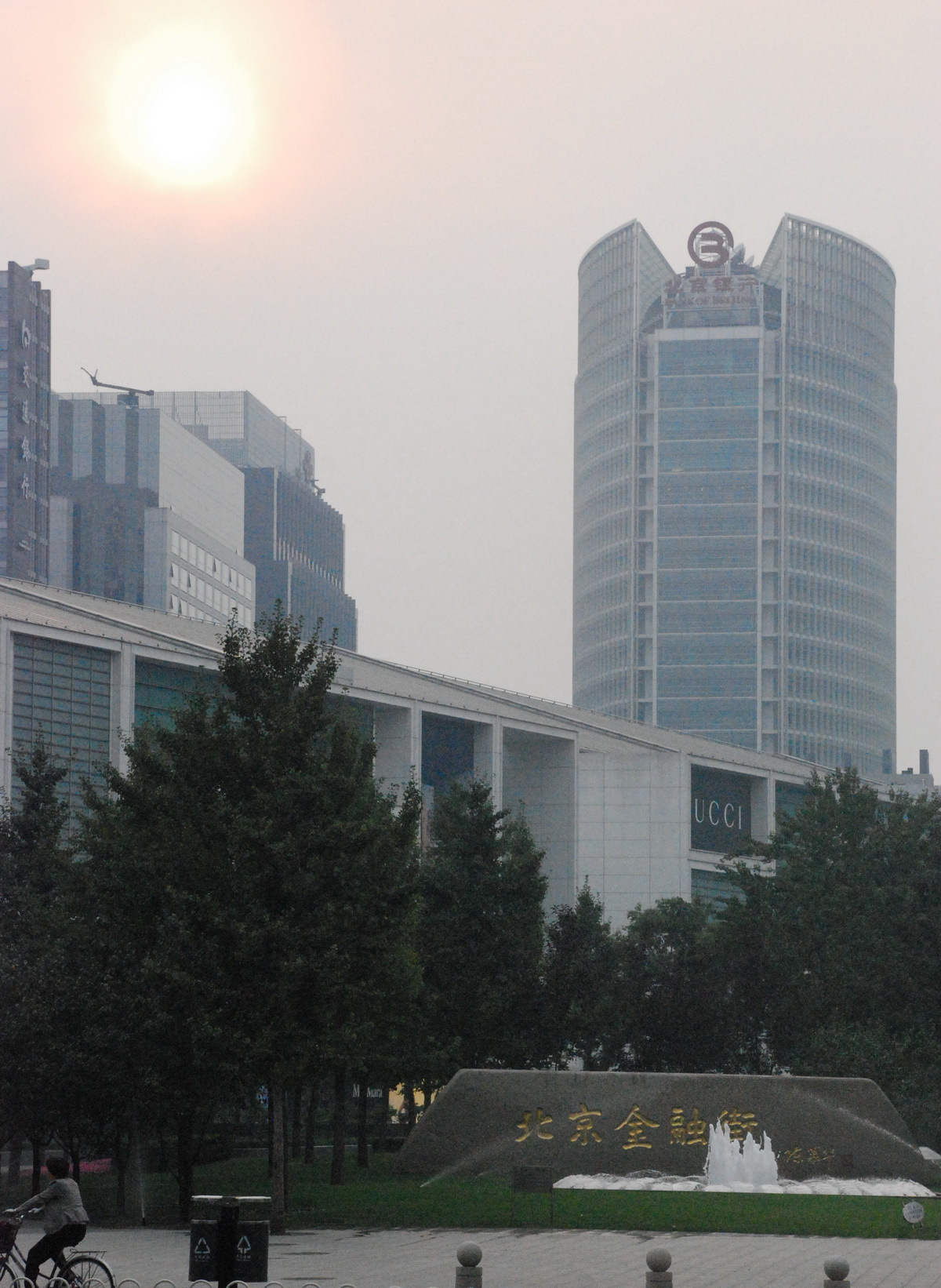 Streetview of Beijing Financial Street